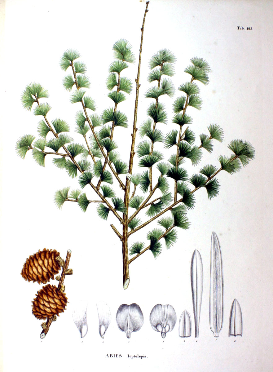 Plate from book